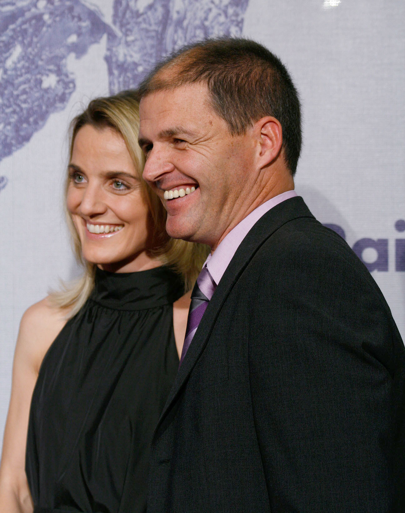 Markus Gandler at the award show for the Austrian Sportspersonalities of the year 2009.